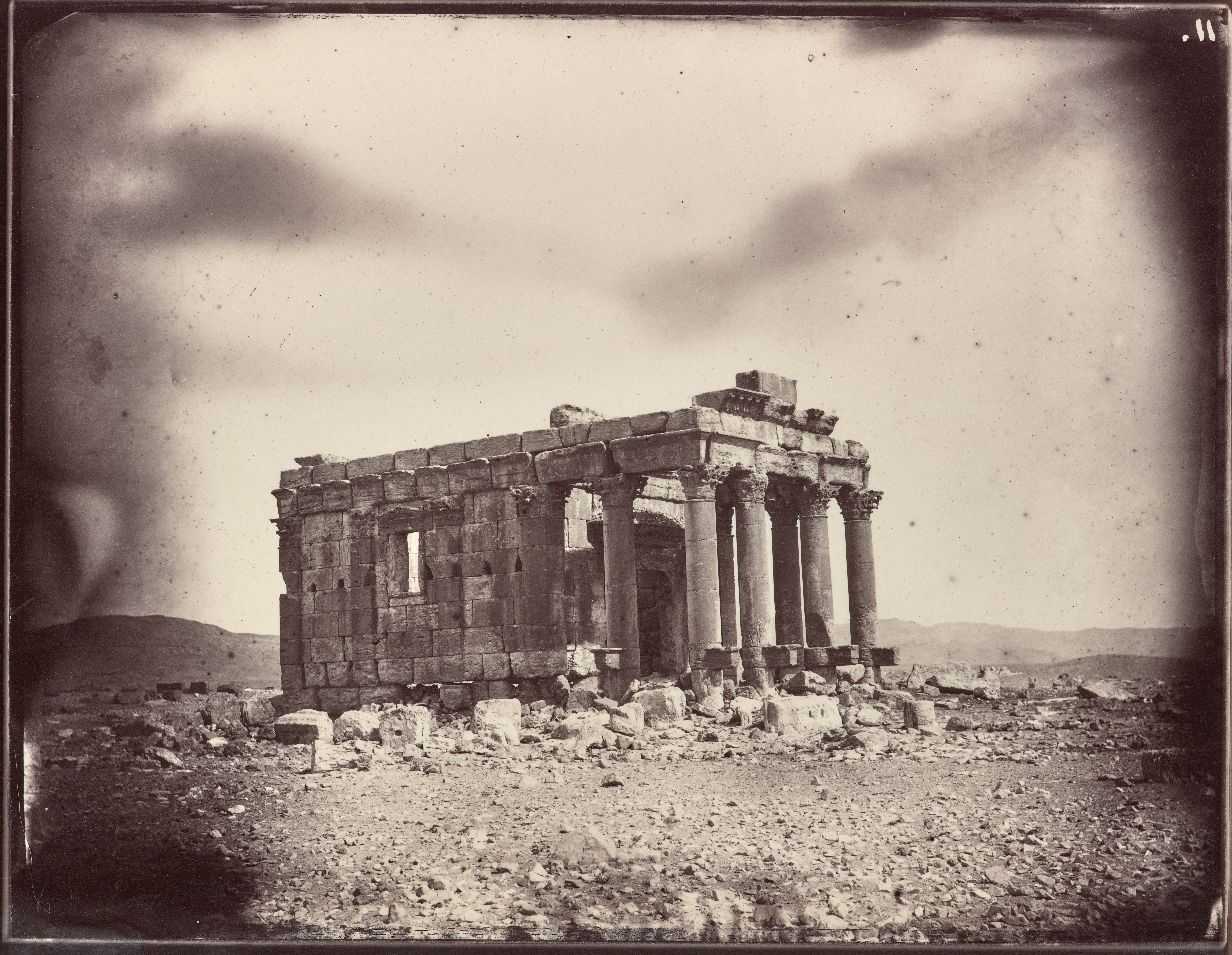 Temple of Baalshamin, Louis Vignes, 1864. Albumen print. The Getty Research Institute